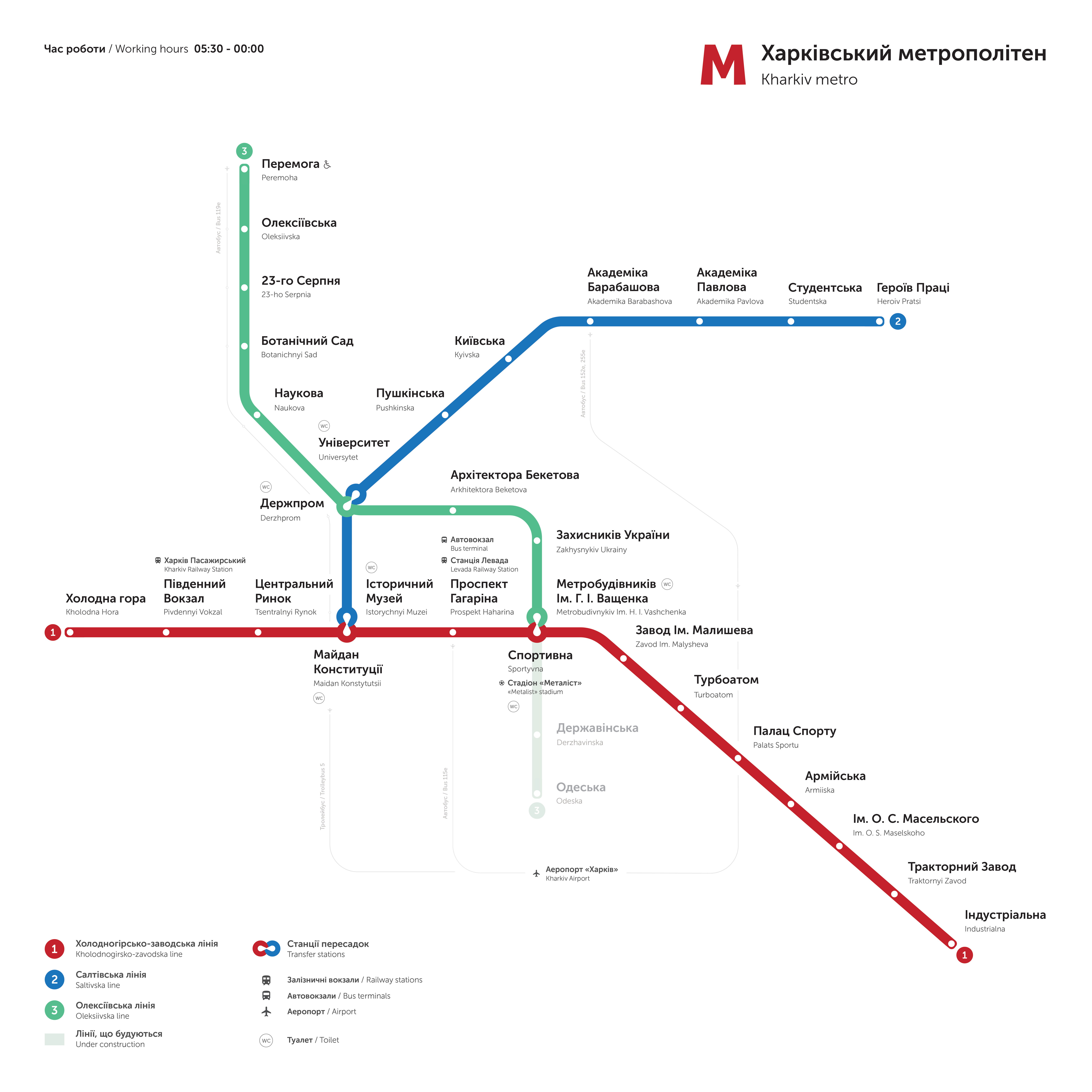 New Kharkiv Metro map